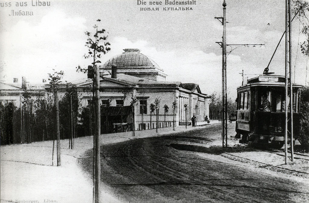 Liepājas tramvajs Nr. 12